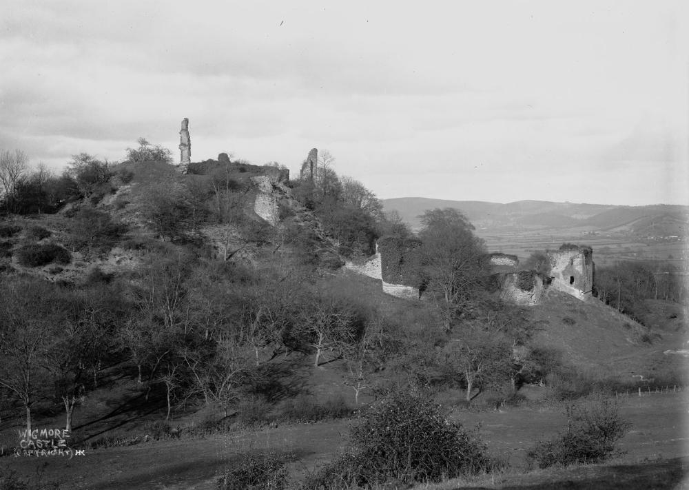 Abstract: Wigmore castle